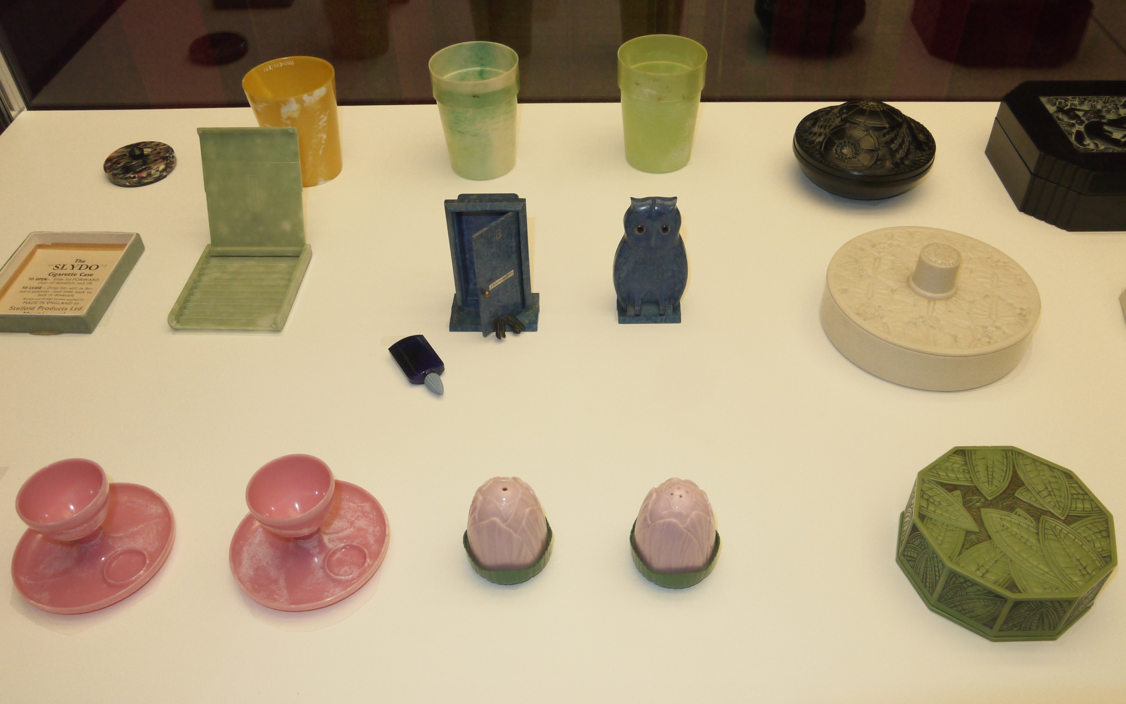 A photo of a range of objects made from urea formaldehyde showing the range of colours it supports.